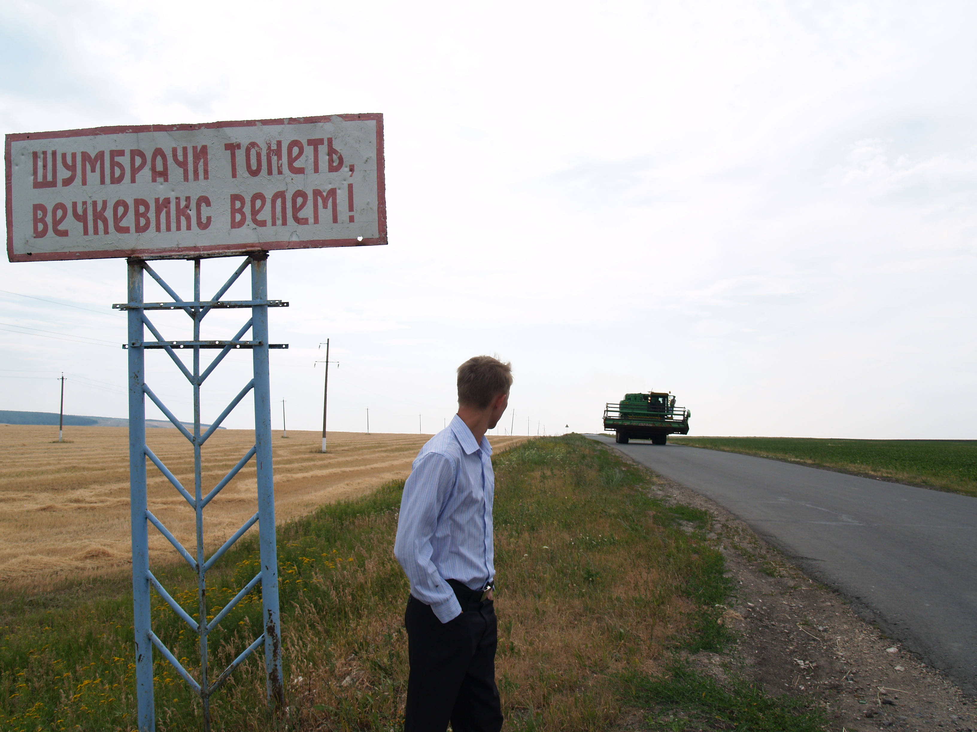 Such a beautiful phrase in the Erzyan language: «Shumbrachi tonetj, vechkeviks velem!» («Hello, my beloved village!») meets at the entrance to the village of Sabancheevo.